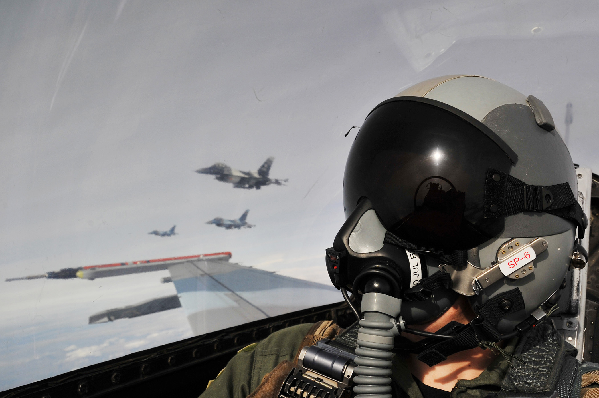 Playing the "enemy," F-16 Fighting Falcon "Aggressors" fly over the Joint Pacific Alaskan Range looking for opposing forces July 28 during Red Flag-Alaska at Eielson Air Force Base. The exercise is a Pacific Air Forces-directed field training exercise poised at giving aircrews their first 10 flights in combat. The F-16s are assigned to the 18th Aggressor Squadron.